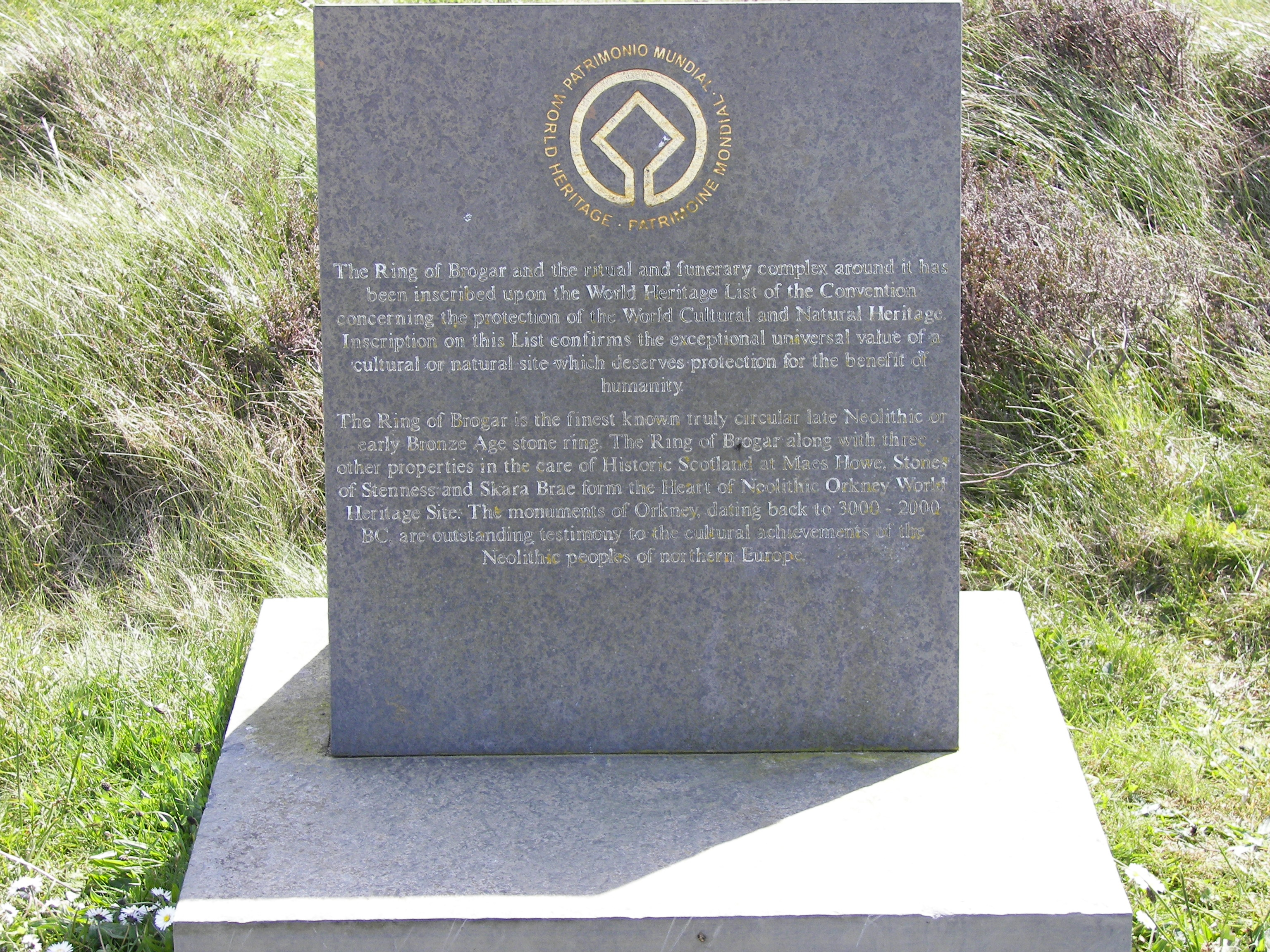 Marker for the Ring of Brodgar.